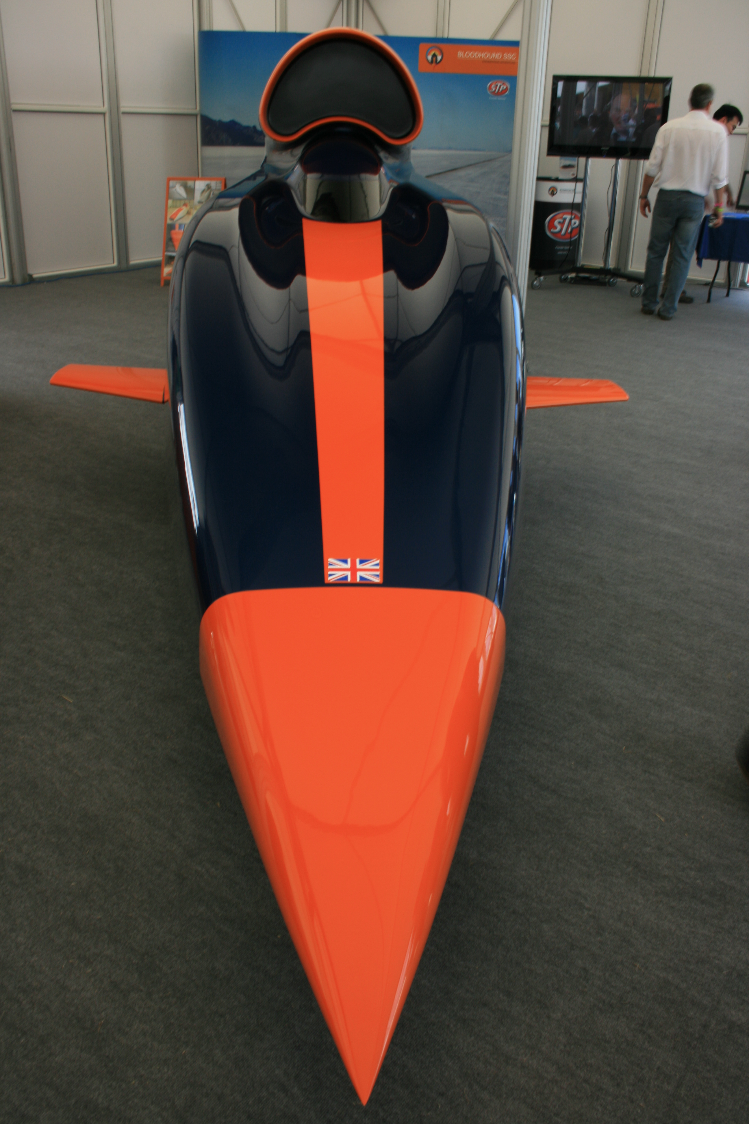 Mock up of future Land Speed Record Attempt